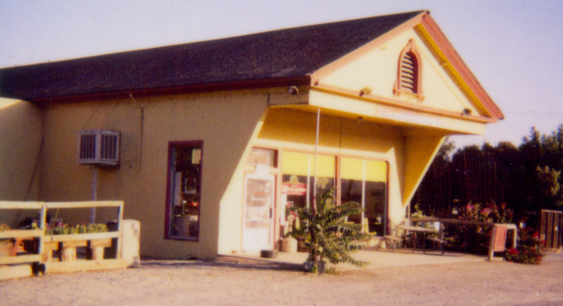 Documentary snapshot of Paicines General Store located in Paicines, California taken in 2006. Photo by David Jordan. Please credit the photographer when using this photo. State Route 25 County Route J1 (California)